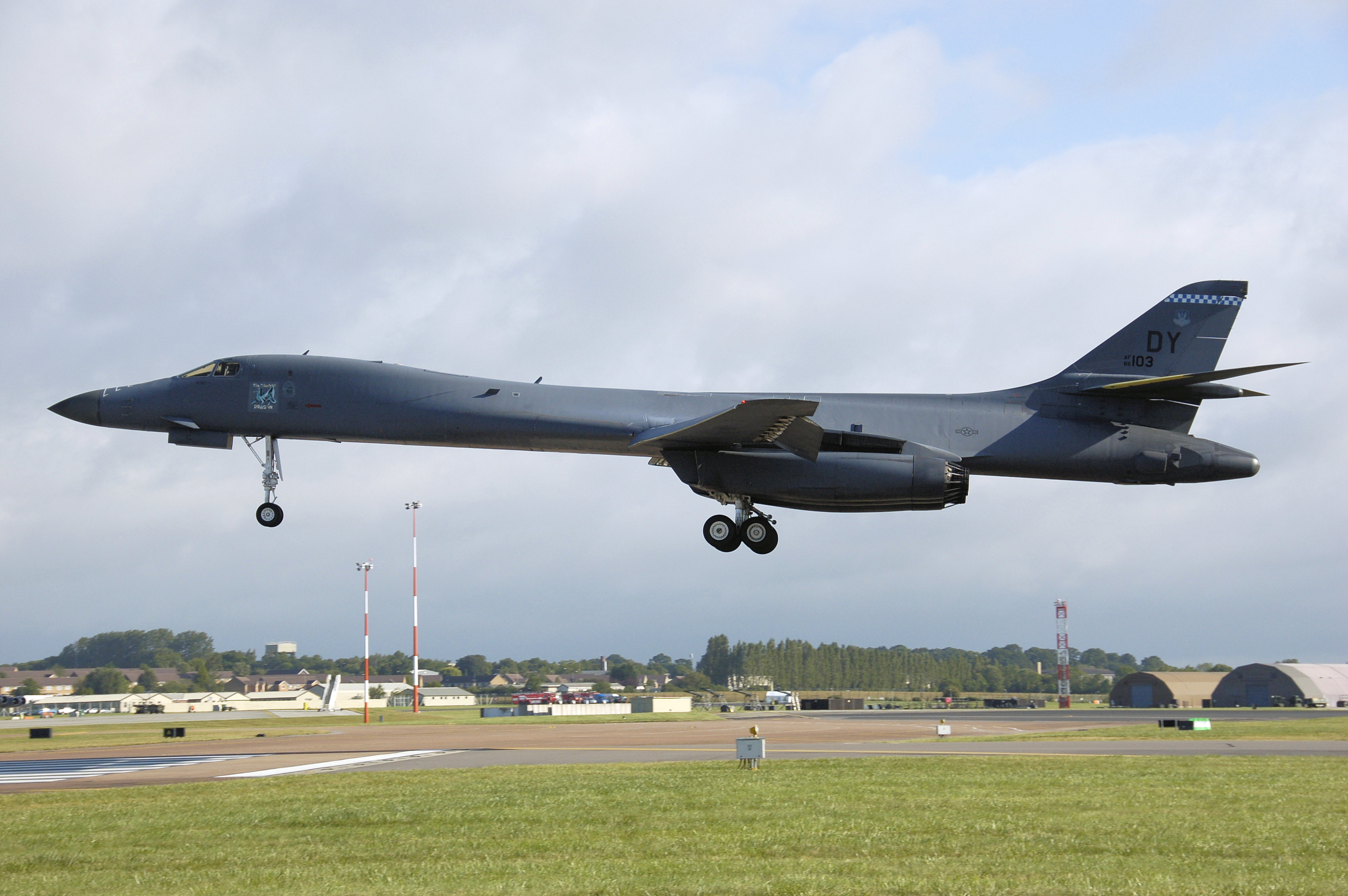 USAF B-1B Lancer (fin code AF86-103) arrives at the 2008 Royal International Air Tattoo, RAF Fairford, Gloucestershire, England. Taken at RIAT Fairford on the Thursday before the weekend show days. Later both show days (Saturday and Sunday) were cancelled because of waterlogged car parks.